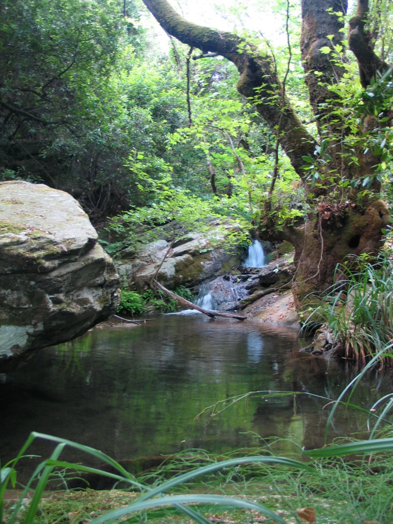 horton, pilion